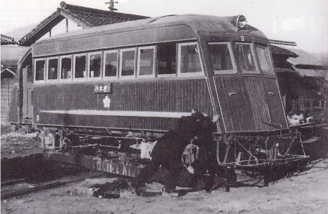 Gasoline railcar used in Asakura kido,"3 type"